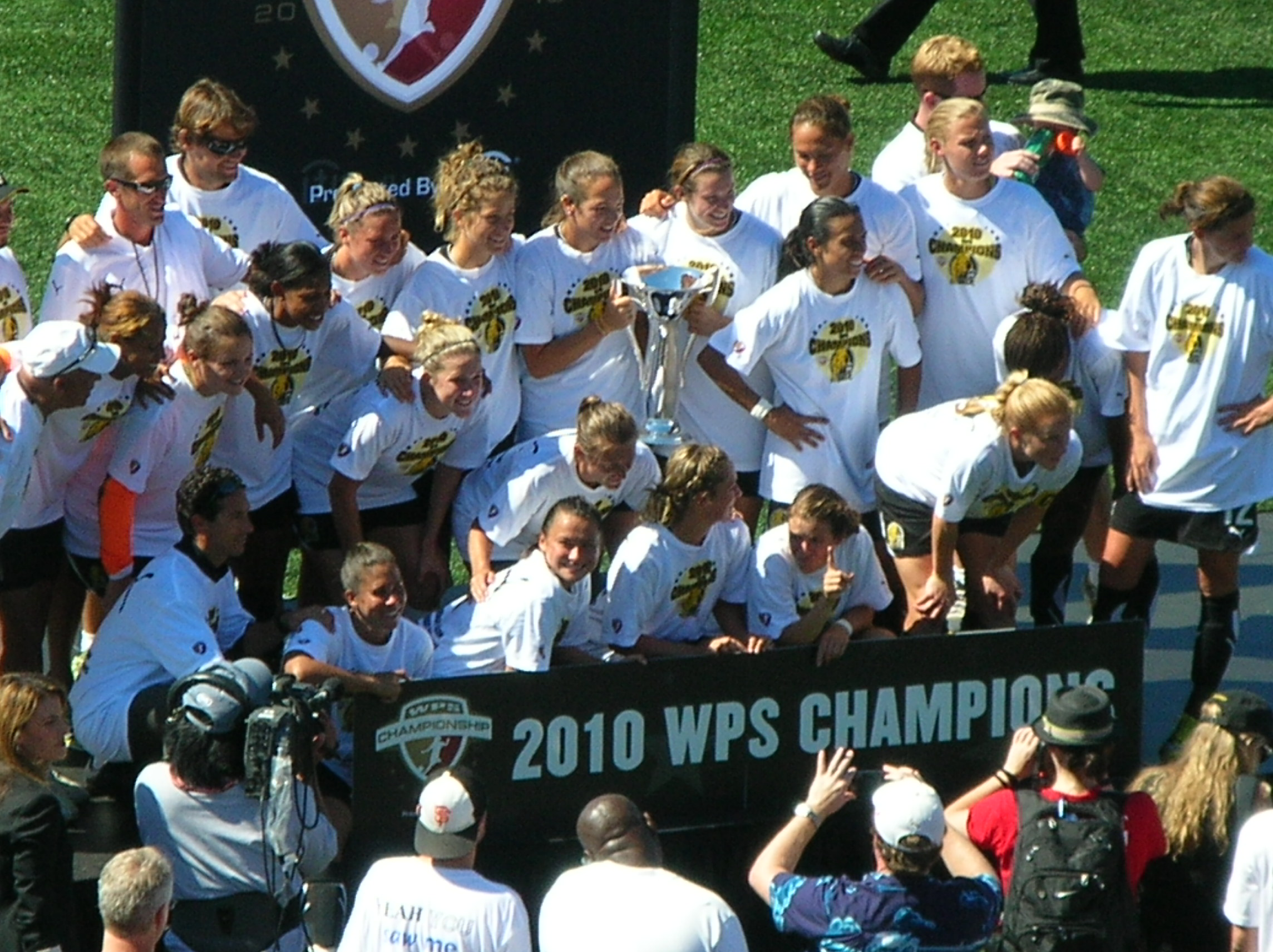 The FC Gold Pride pose with the 2010 WPS Championship Trophy at Pioneer Stadium in Hayward after defeating the Philadelphia Independence 4-0.